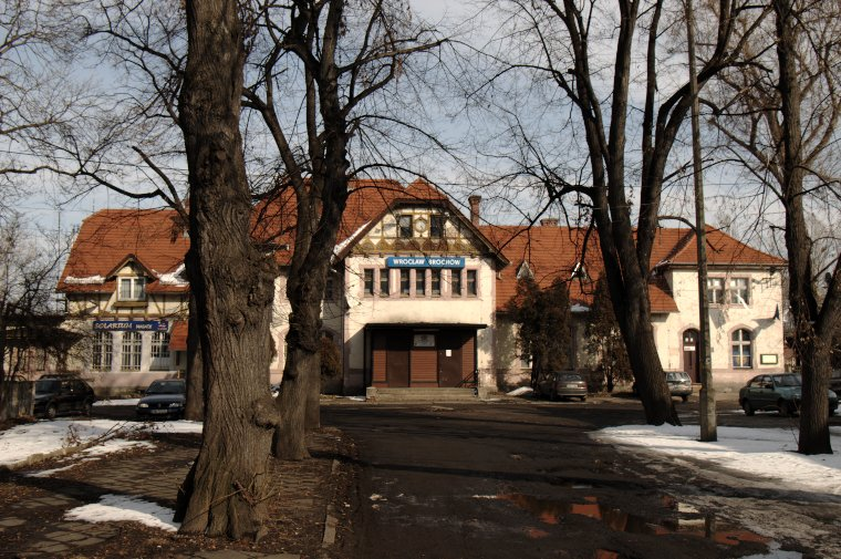 Railway Station Wrocław Brochów.